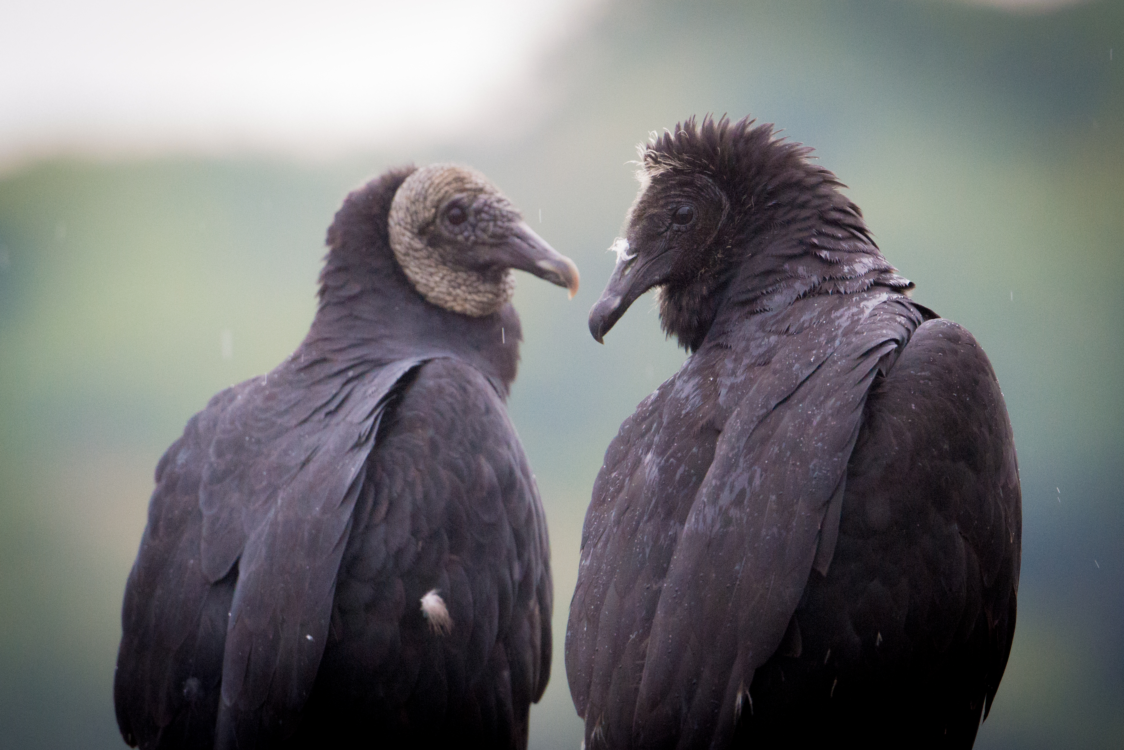 Hueston Woods State Park, College Corner, Ohio